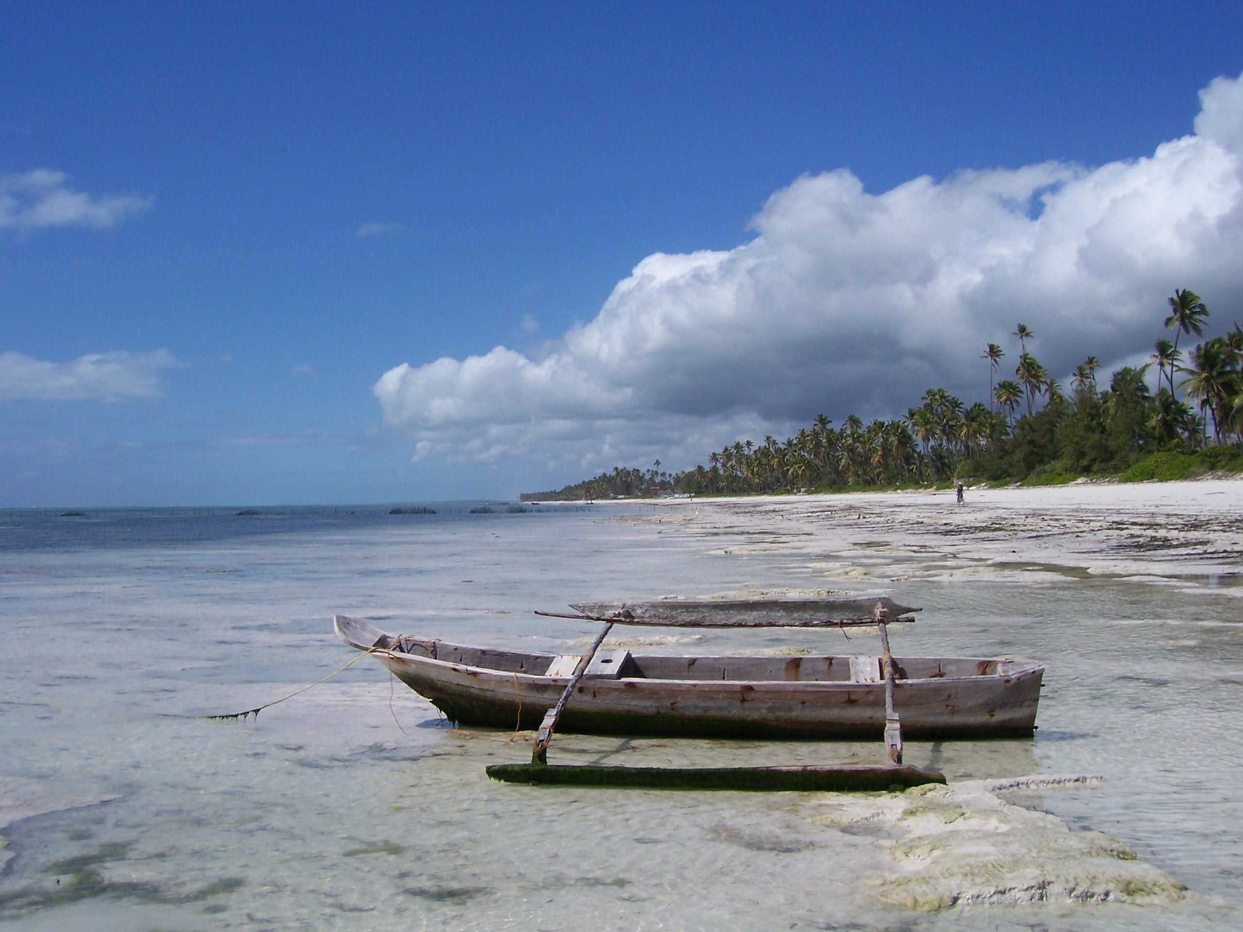 Facing South down the Eastern coast of Zanzibar, North of Bwejuu at low tide with a locals Dhow in foreground.